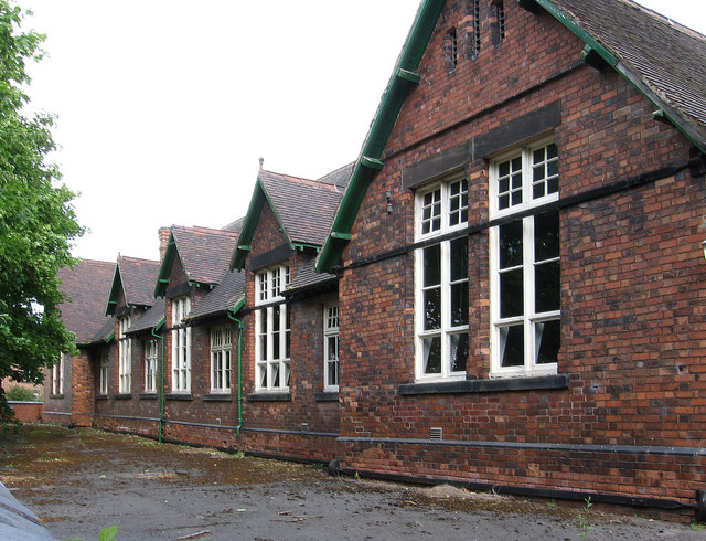 Denby - John Flamsteed School (brick buildings)